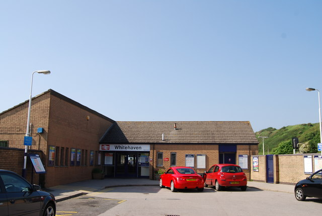 Whitehaven Station